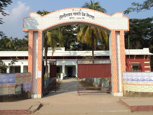 Moulvibazar Govt. High School Main Gate